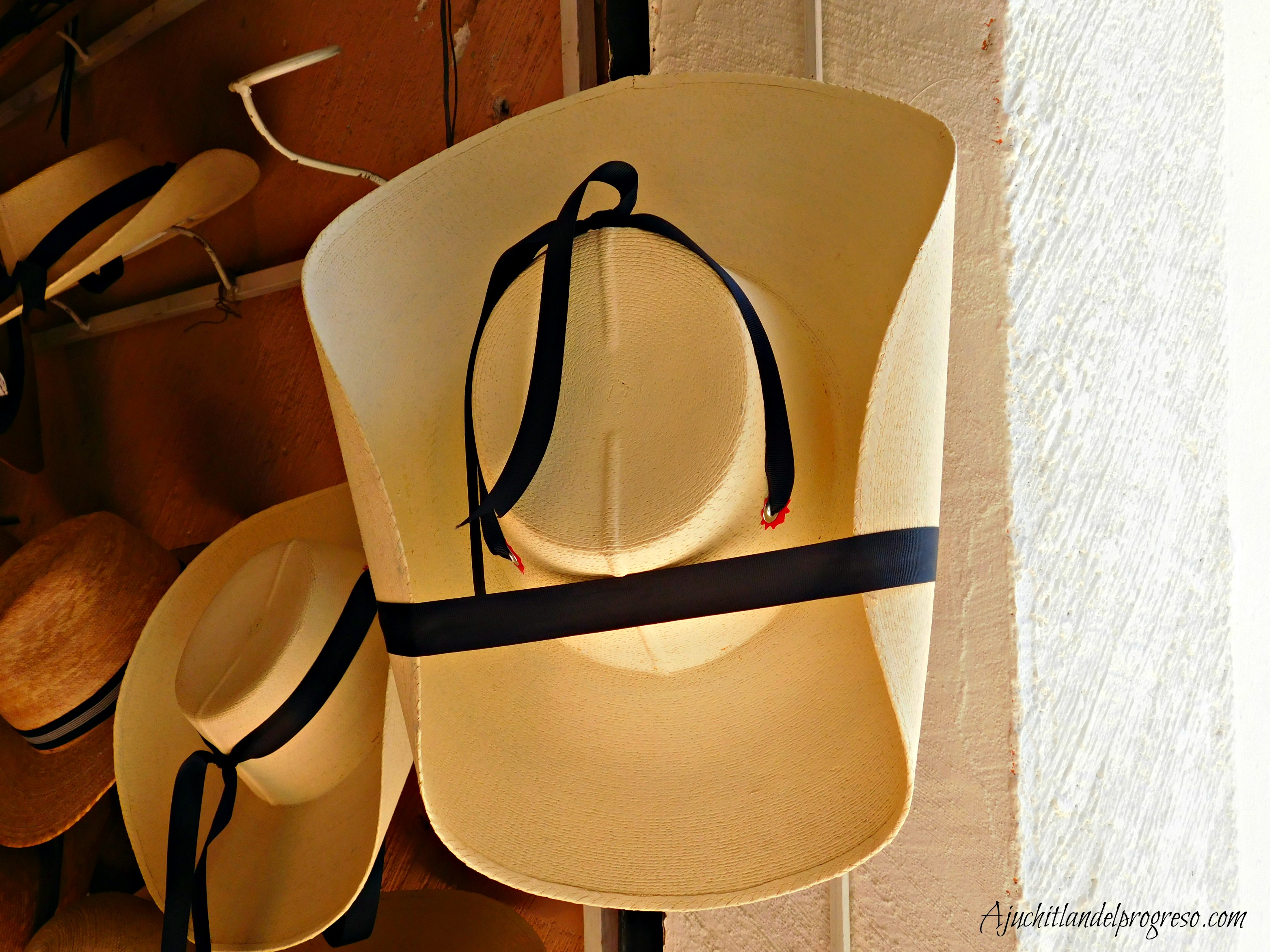 El muy conocido sombrero de astilla, creado originalmente en tierra caliente, basicamente en Tlapehuala Guerrero, ubicados en Tierra Caliente en el estado de Guerrero.